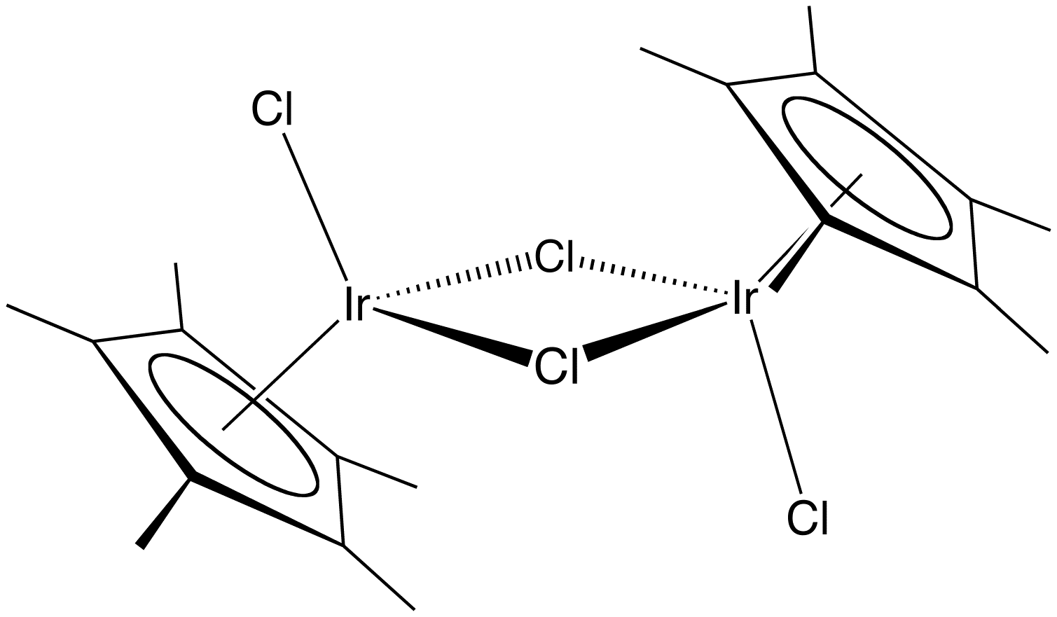 Structure of the organometallic compound Cp*2ir2Cl4